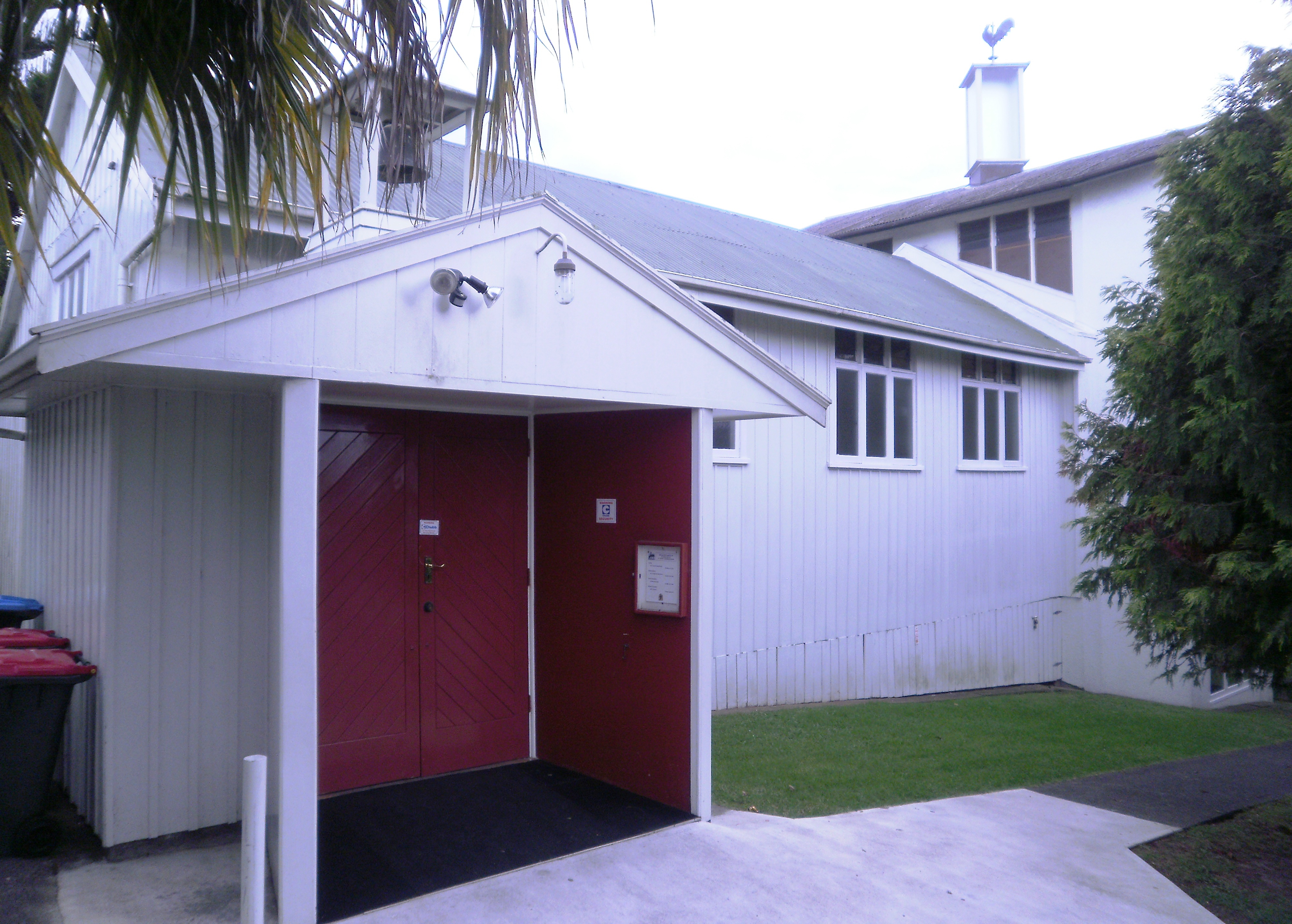 St Martin's at St Chad's, Sandringham, Auckland, New Zealand. View of entry.